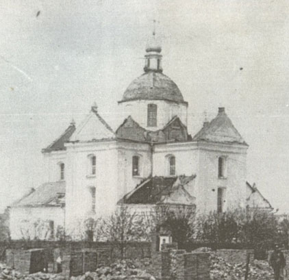 Church of St. Peter and St. Paul in Mahiloǔ